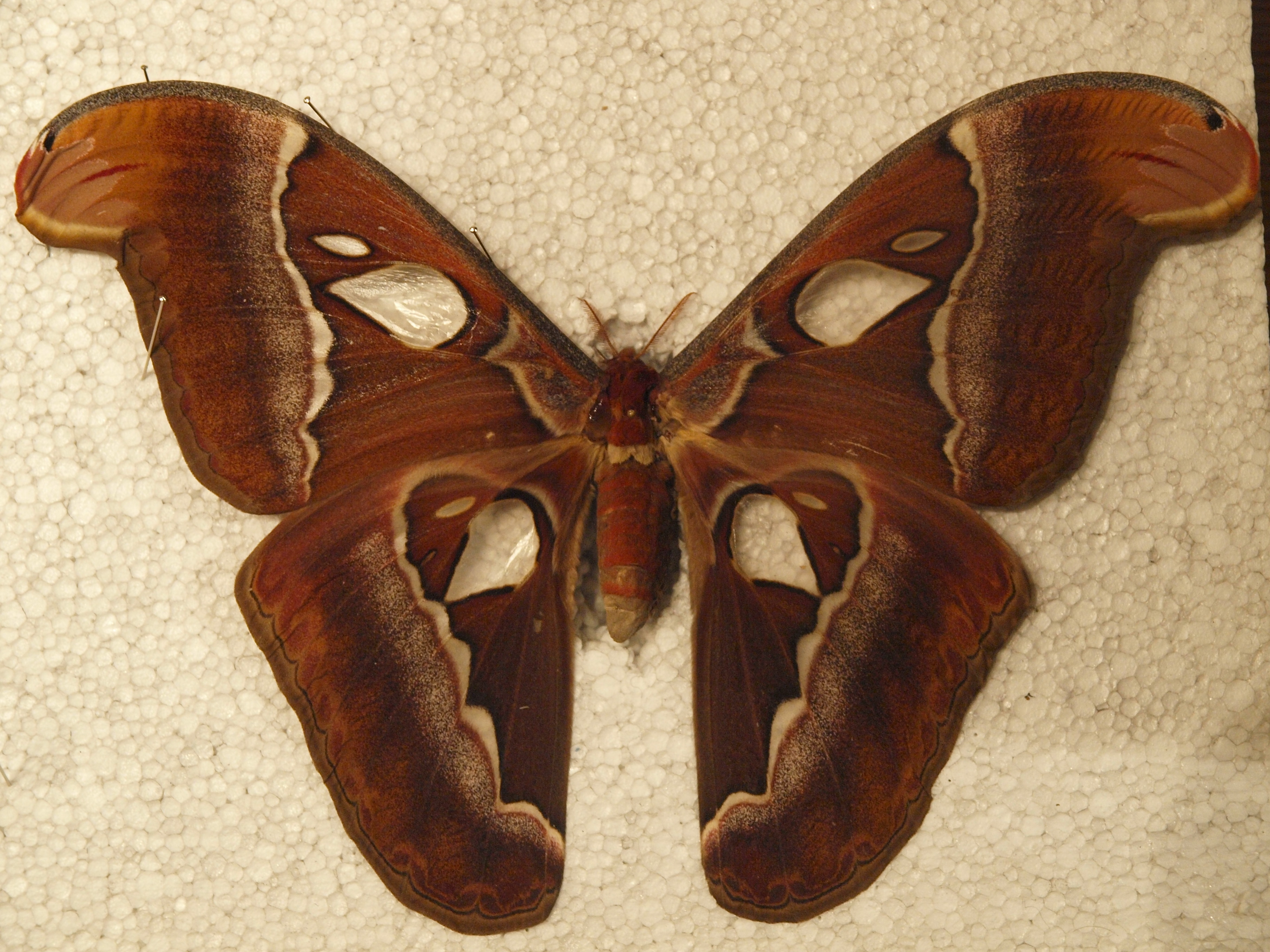 Female Attacus inopinatus from Flores, ex own collection